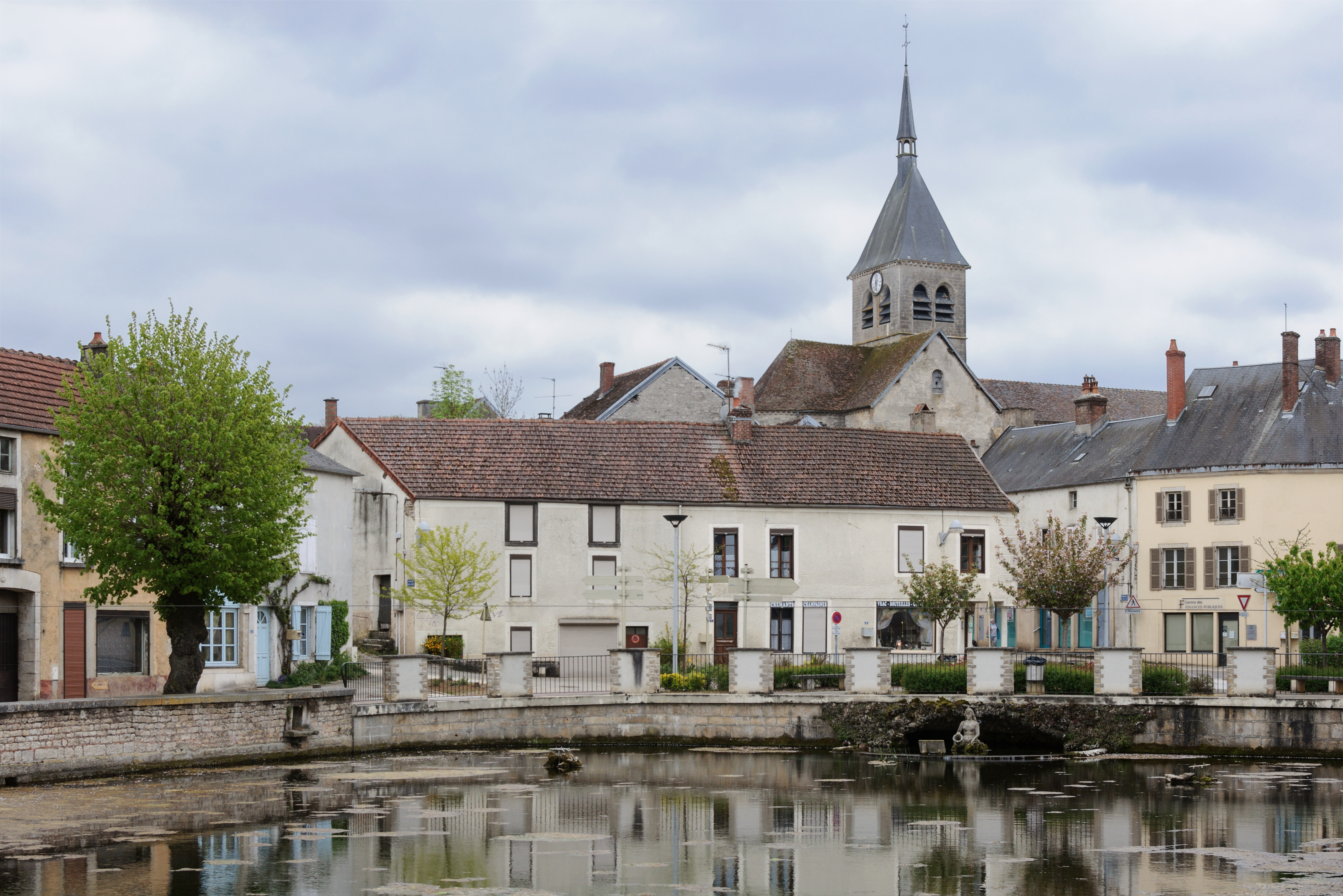 A view of Laignes, Côte-d'Or department, Burgundy, France, with the church Saint-Didier and the “resurgence” of the Laigne river.